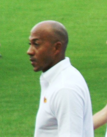 World Athletics Championships 2007 in Osaka - The IAAF flag carried by (in foreground) Frankie Fredericks, Rosa Mota, Heike Drechsler